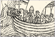 Swedish_crusaders_in_Finland